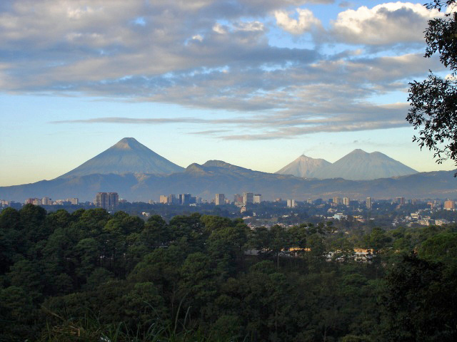 View of Guatemala City with the "Agua", "Fuego", "Acatenango" volcanoes in the background